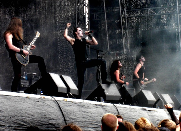 Satyricon, Metaltown 2008